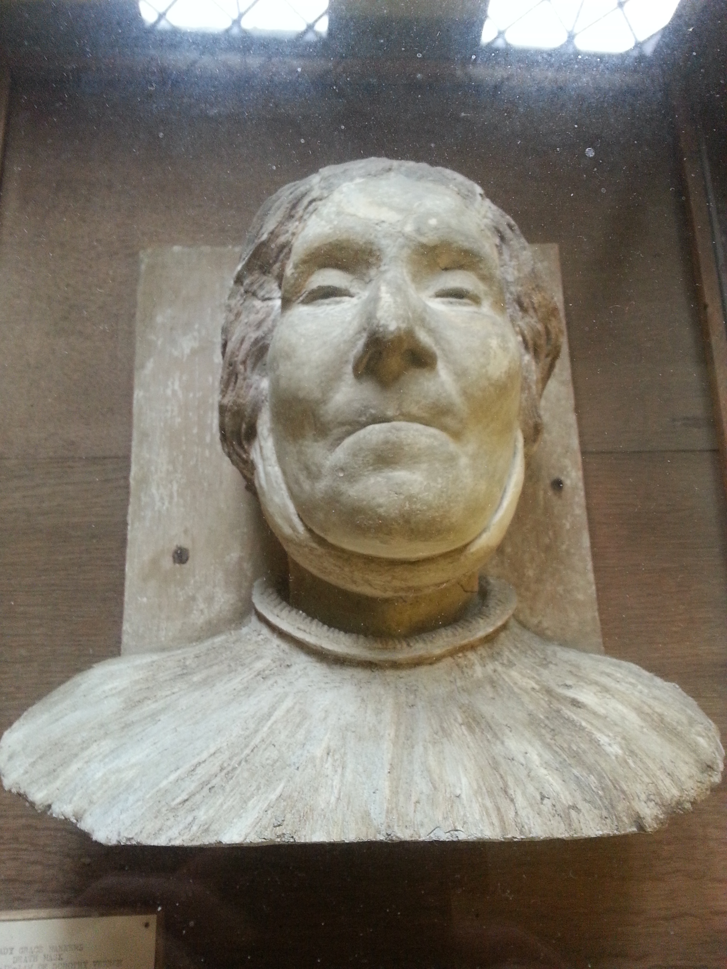 Grace, Lady Manners's death mask at the museum at Haddon Hall